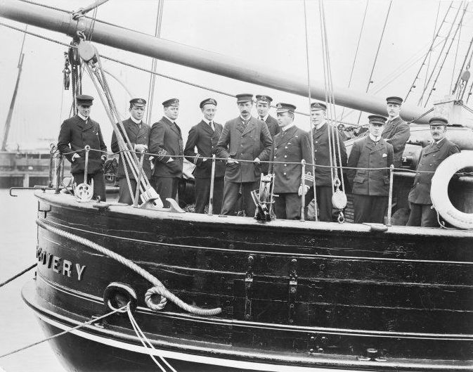 Officers of the 'Discovery' on the 1901-1904 British Antarctic Expedition. From left: Edward Adrian Wilson, Ernest Henry Shackleton, Albert Armitage, Michael Barne, Dr. Reginald Koettlitz, Reginald Skelton, Robert Falcon Scott, Charles Royds, Louis Bernacchi, Hartley Travers Ferrar, Thomas V. Hodgson.